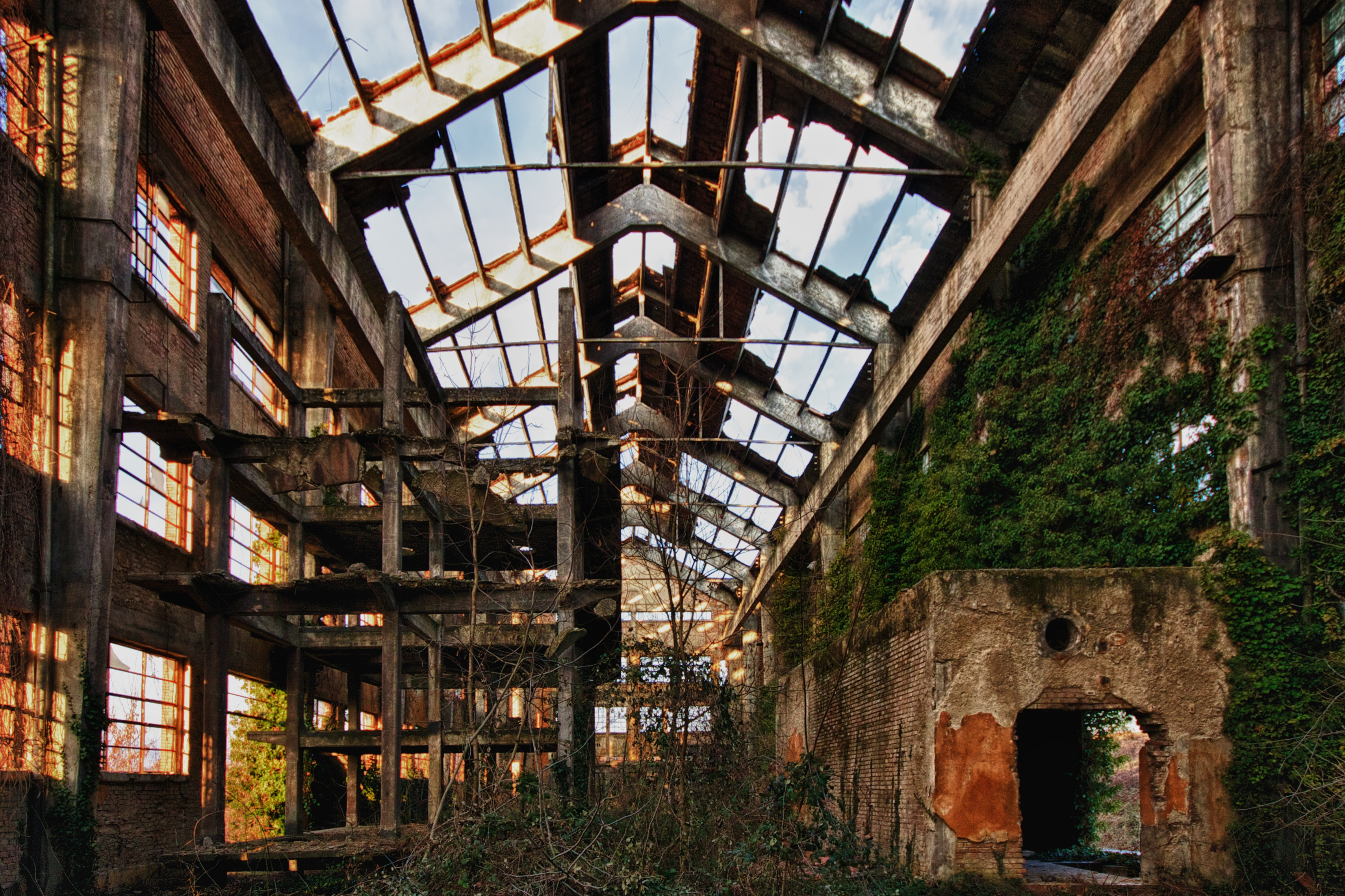 Dismantled Montecatini chemicals factory, Rieti (Lazio, Italy)